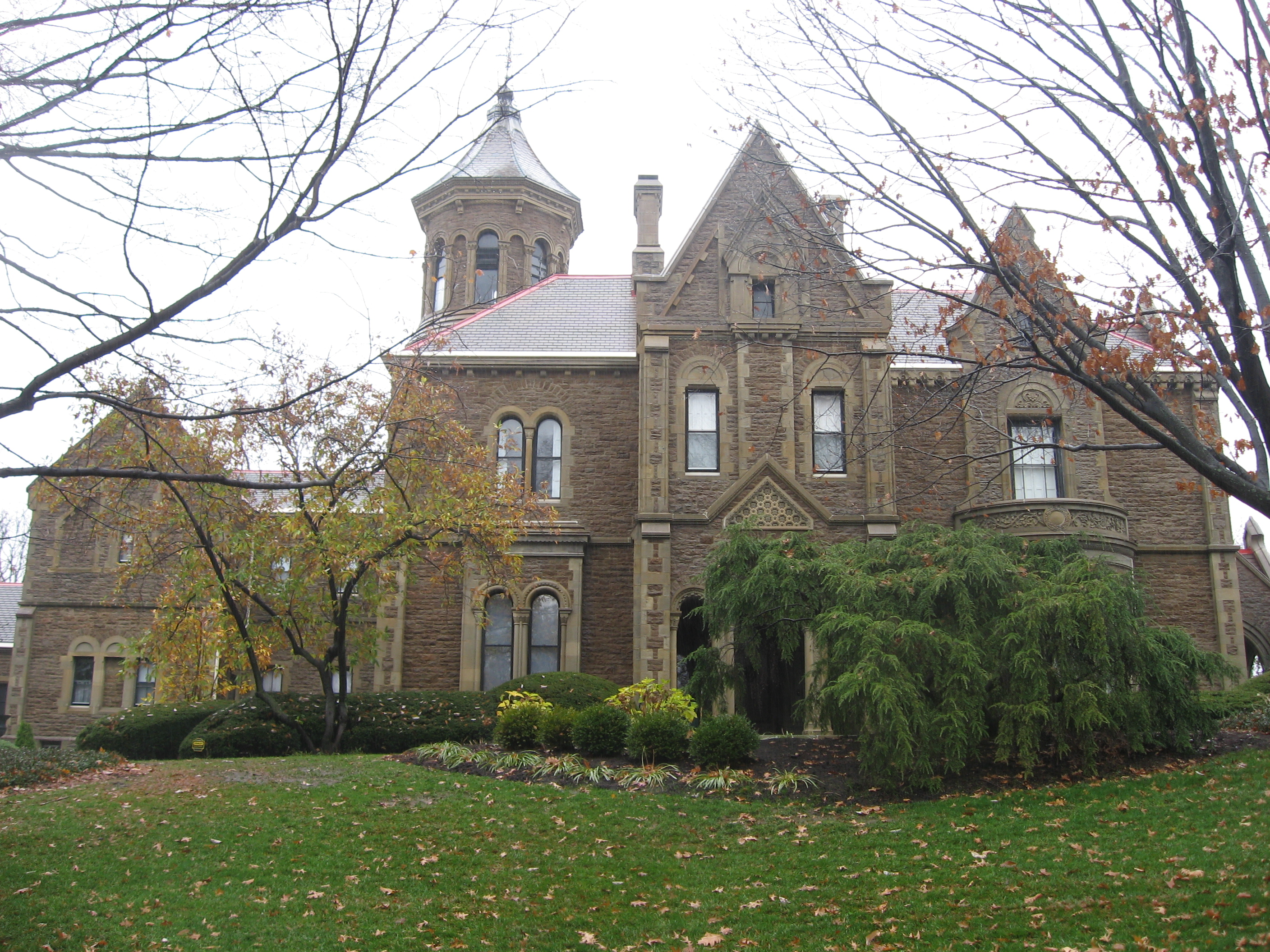 Front of the Henry Probasco House, located at 430 W. Cliff Lane in the Clifton neighborhood of Cincinnati, Ohio, United States. Built in 1859, it is listed on the National Register of Historic Places.